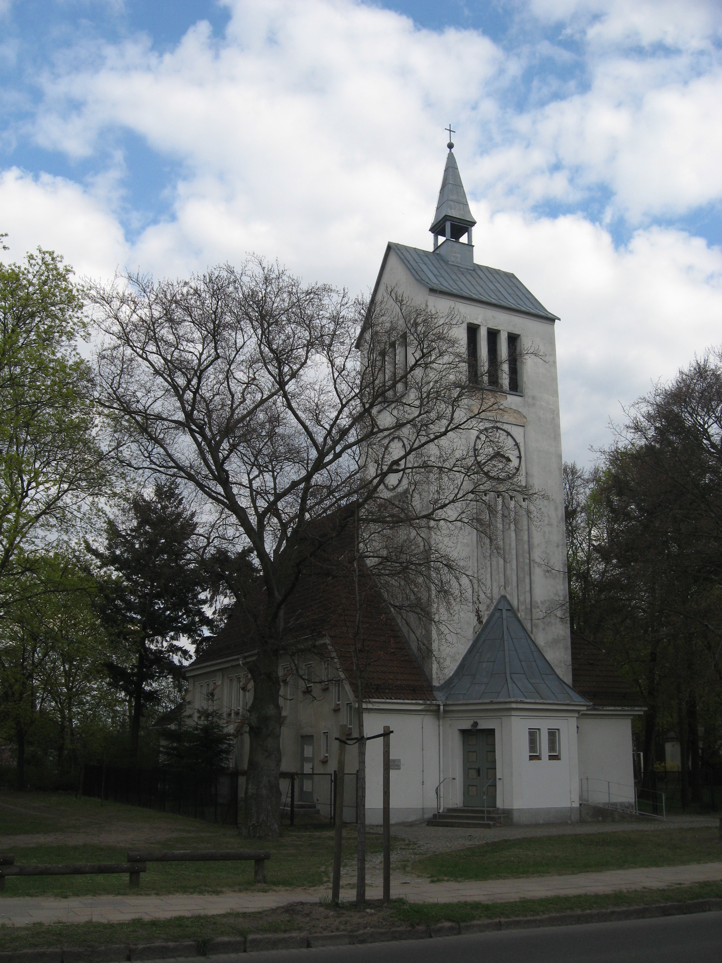 church in Oranienburg-Sachsenhausen, Brandenburg, Germany